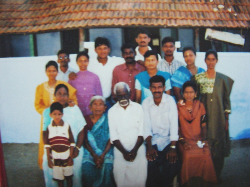 Family photo of Mr.Michael Fernando